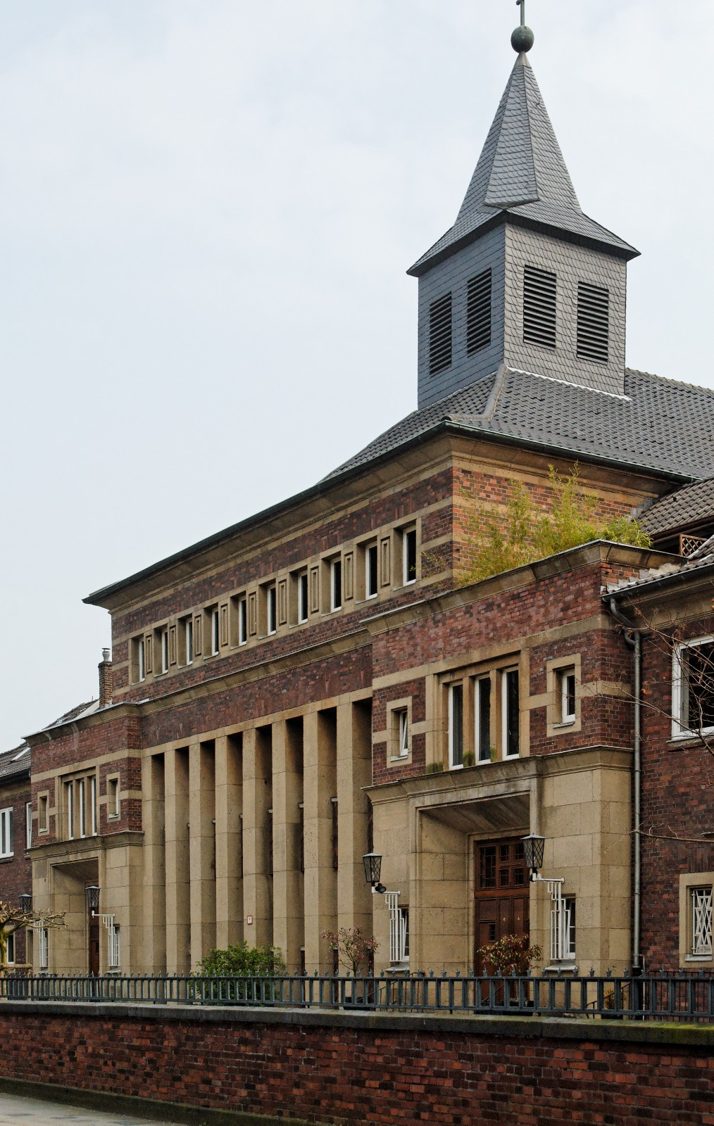 Luther Church in Düsseldorf-Bilk, Germany